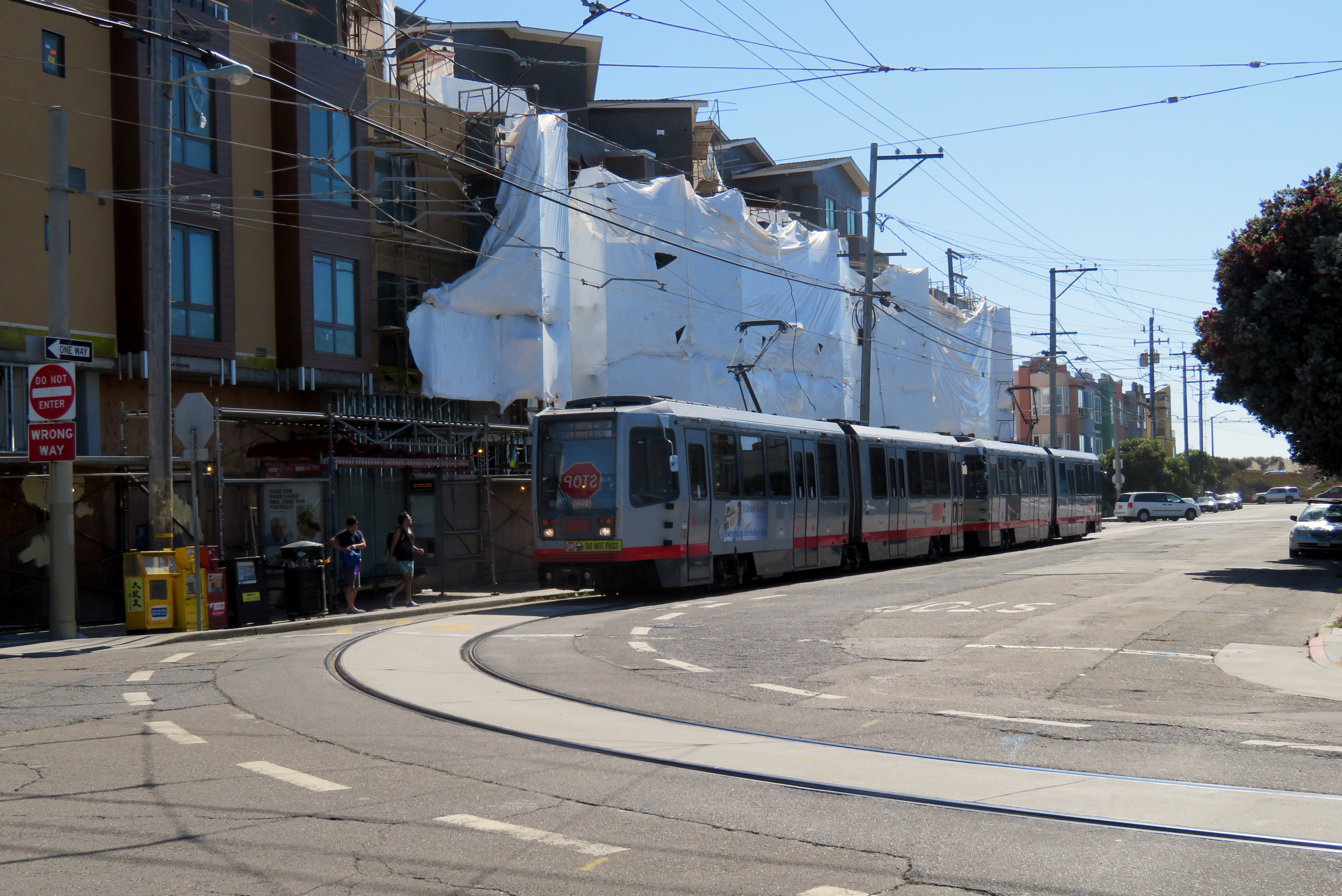 L Taraval train at Wawona and 46th Avenue in June 2018